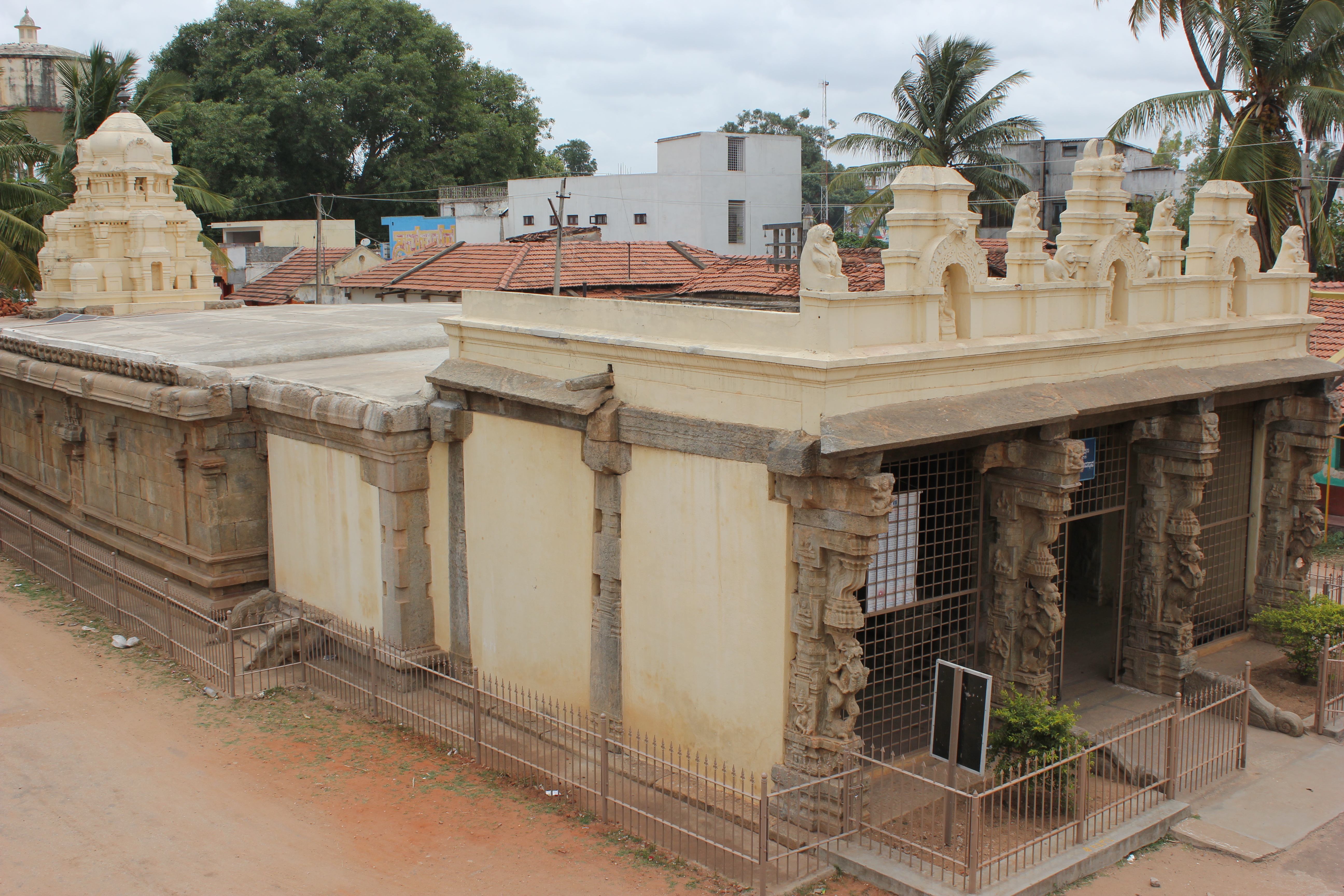 This photograph was taken by me at the Vijayanarayana temple in Gundlupet, Chamarajanagar district, Karnataka state, India. The temple was initially constructed by the 10th century Western Ganga dynasty of Talkad and has received patronage from the Hoysala and Vijayanagara empires upto the the 15th century.